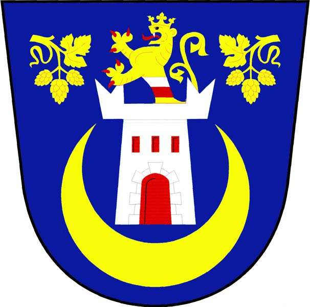 Coat of amrs of Kolešovice , District Rakovník, Czech Republic